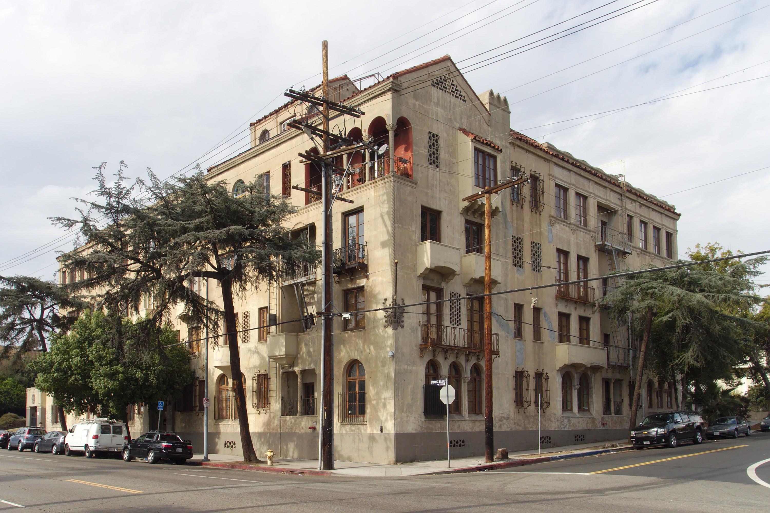 Villa Carlotta apartments, Los Angeles Historic-Cultural Monument 315, viewed from the southeast.